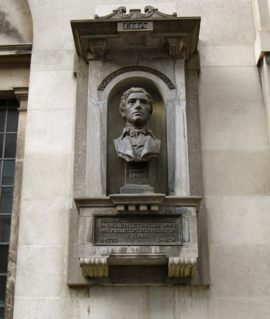 Charles Lamb Memorial